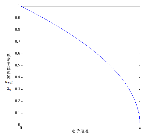 Fraction of relativistic and uhrelativistic Bohr radius as a function of the electron velocity